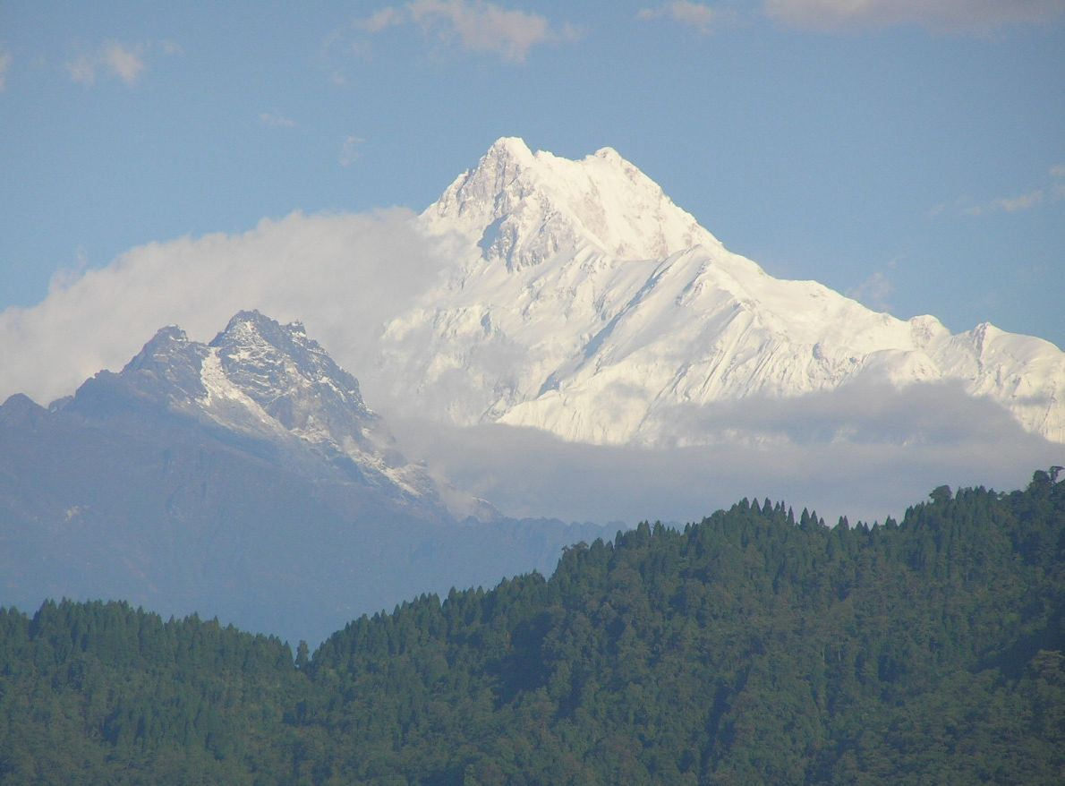 Kangchenjunga, 8586 m seen from Gangtok, Mountain on the border between Nepal and Sikkim